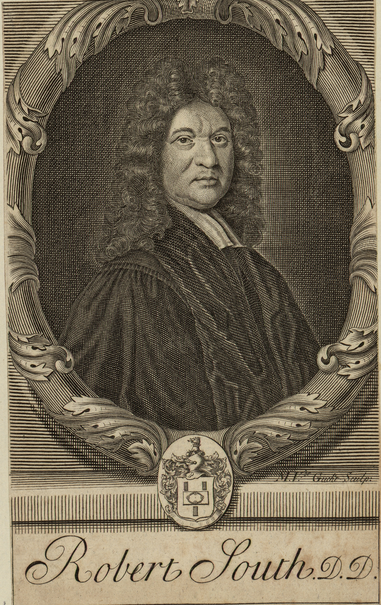 An image from a set of 8 extra-illustrated volumes of A tour in Wales by Thomas Pennant (1726-1798) that chronicle the three journeys he made through Wales between 1773 and 1776. These volumes are unique because they were compiled for Pennant's own library at Downing. This edition was produced in 1781. The volumes include a number of original drawings by Moses Griffiths, Ingleby and other well known artists of the period. Thomas Pennant (1726-1798)